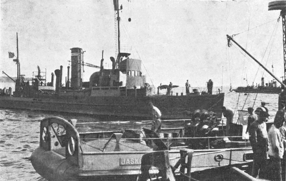 Polish minesweepers of the German FM class; ORP Jaskółka (I) in the foreground, ORP Mewa (I) in the background.